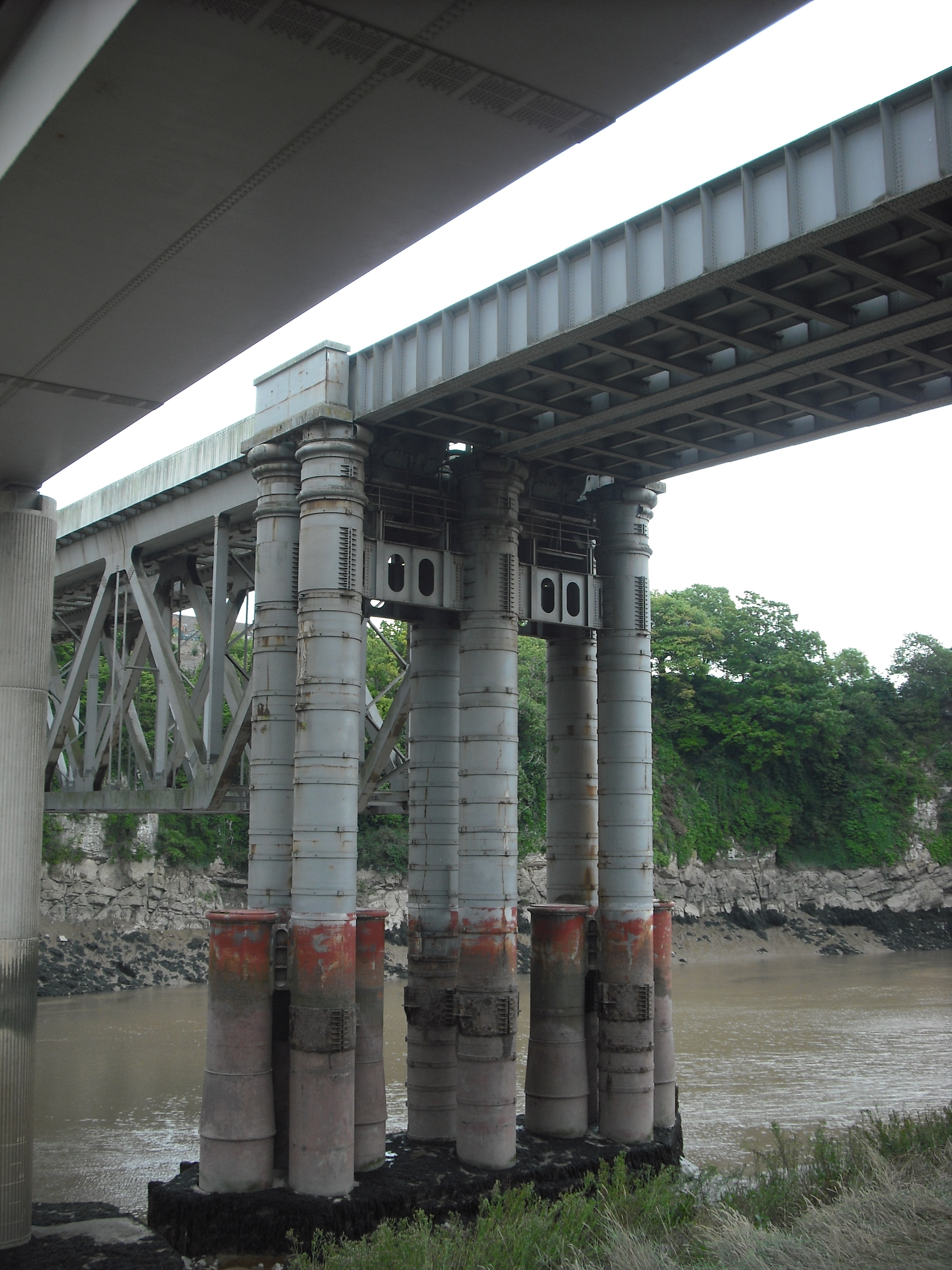 Brunel's cast iron pillars for the original Chepstow Railway Bridge, still supporting the modern railway bridge.